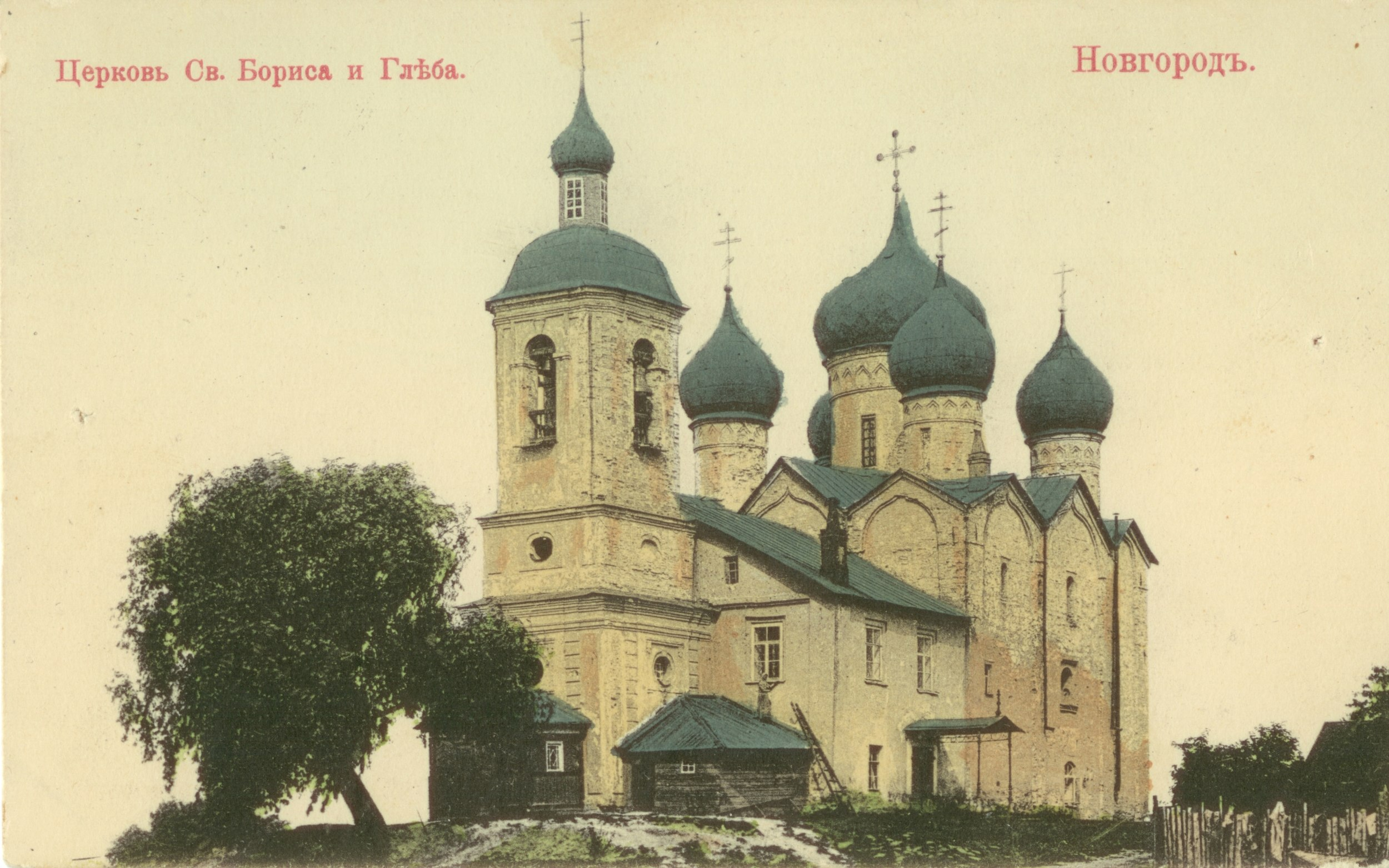 Churche of Boris and Gleb in Veliky Novgorod